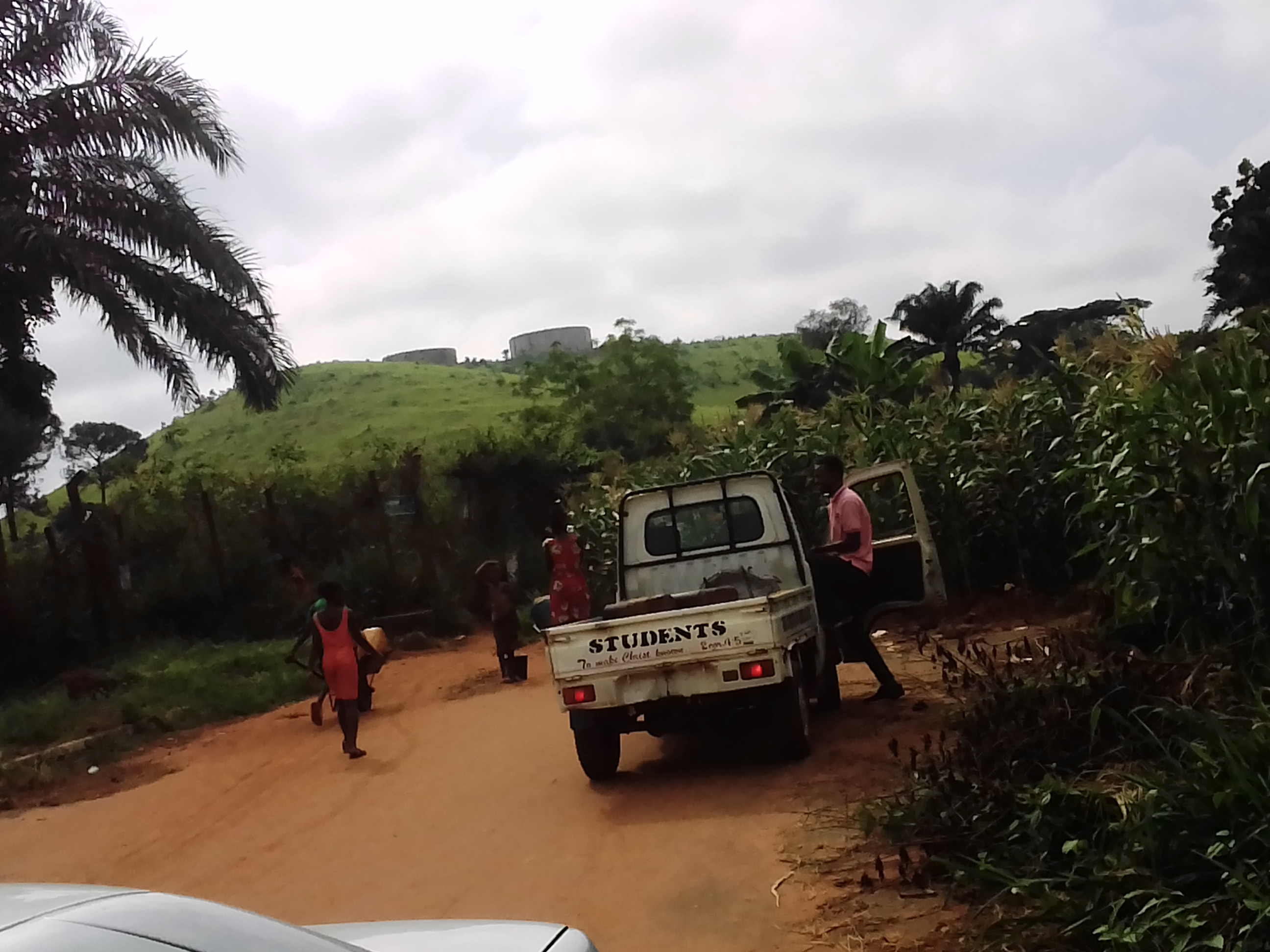 Name: Vet mountain Location: Located in Nsukka, Enugu State. The Latitude of Vet mountain is 6.8683. The Longitude of Vet mountain is 7.4093. It can be mapped to closest address of Faculty of Veterinary Medicine University of Nigeria Nsukka, Nigeria. University of nigeria nsukka is located in Ihe Nsukka sub-locality, Nsukka locality, Nsukka District, Enugu State of Nigeria Country.